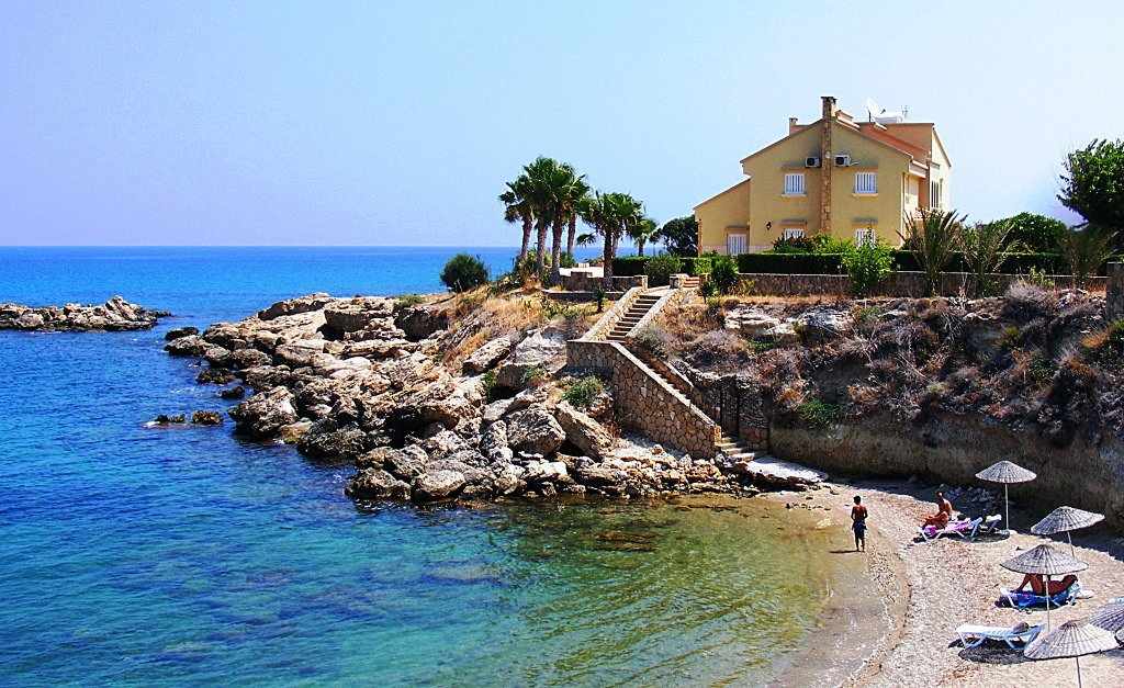 A house and beach at the coast of Lapta or Lapithos, Northern Cyprus.